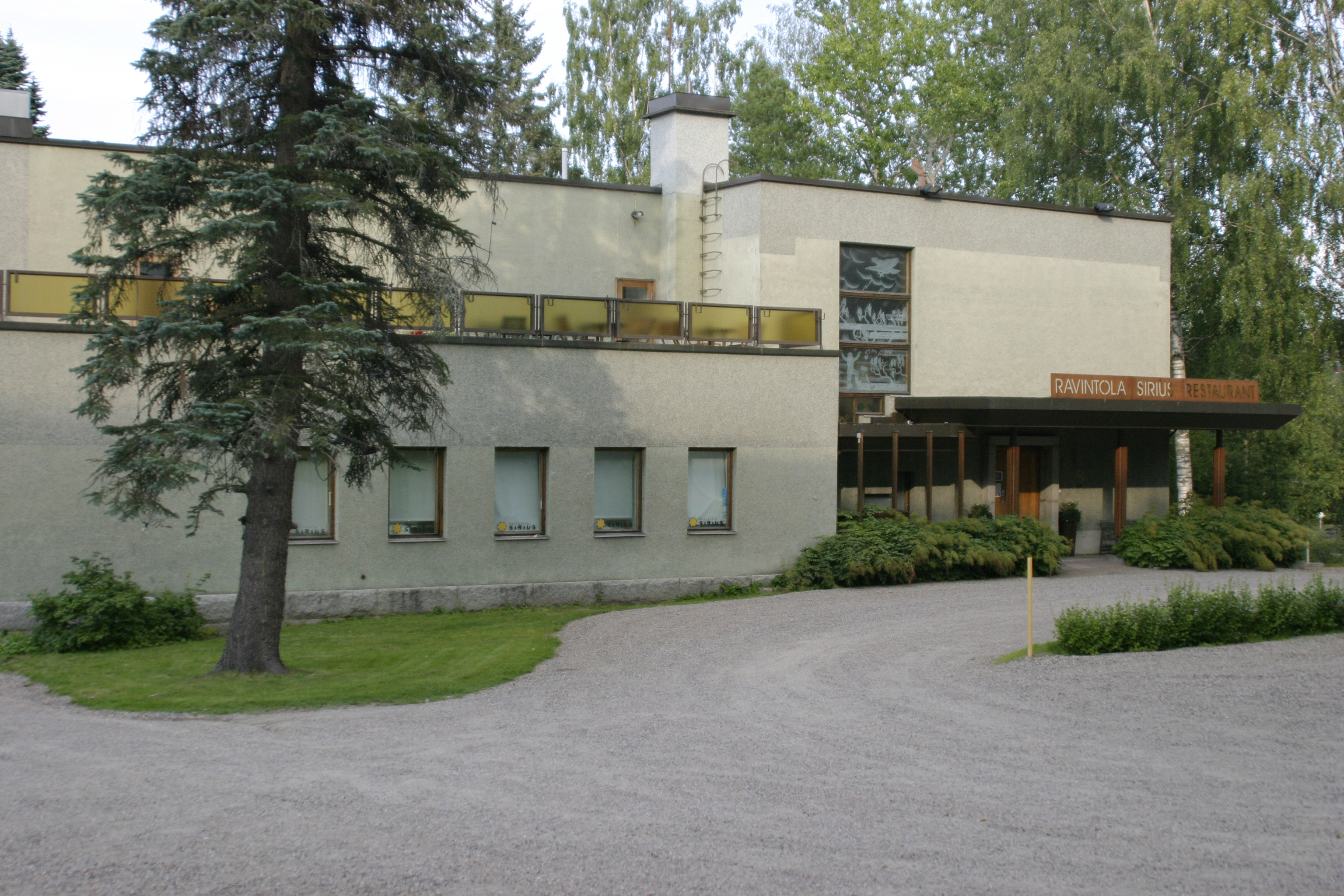 Koskikara (building) in Kajaani, Finland